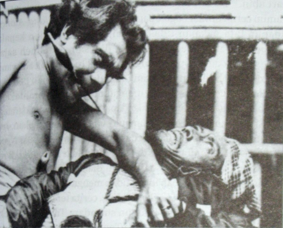 Film still from Rentjong Atjeh.